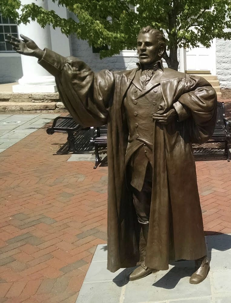 This bronze statue of Peter Muhlenberg portrays him as described by his grand-nephew, removing clerical vestments mid-sermon to display a military uniform underneath, in a call to his congregation to enlist during the “time for war.”